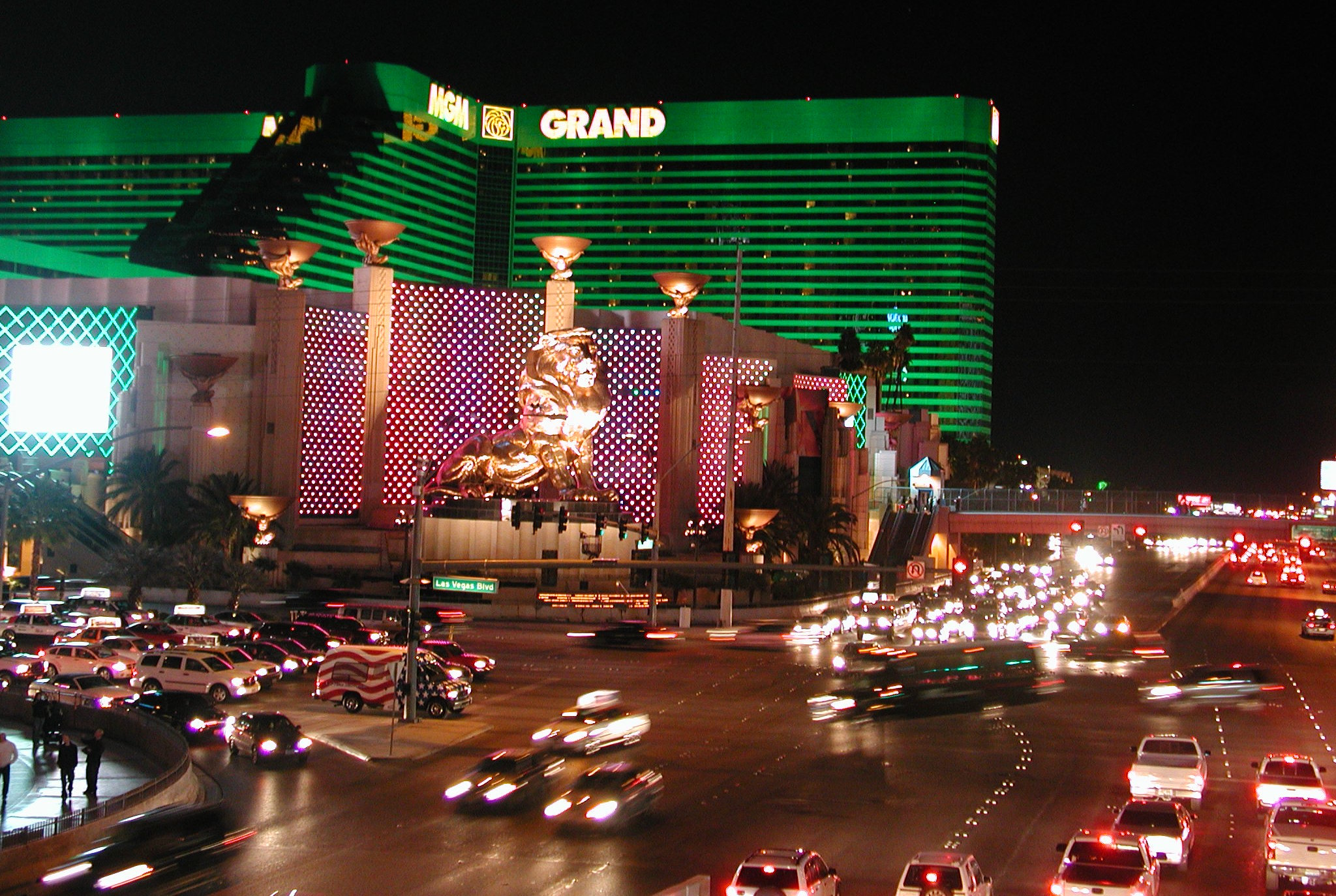 GFDL. author User:Arichnad on the English Wikipedia for the article Tropicana - Las Vegas Boulevard intersection.